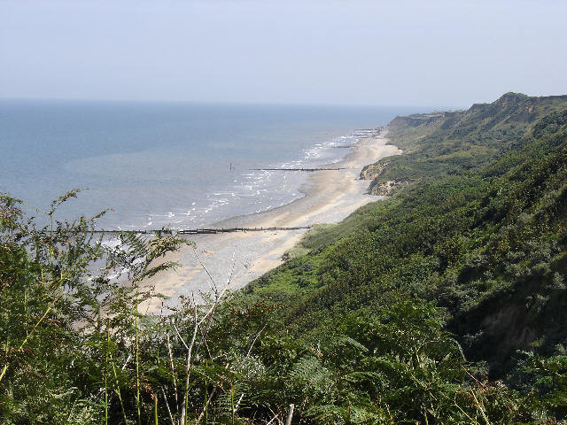 Cromer beach, Norfolk, UK, East of town Taken in summer 2004 by me Martin Richards